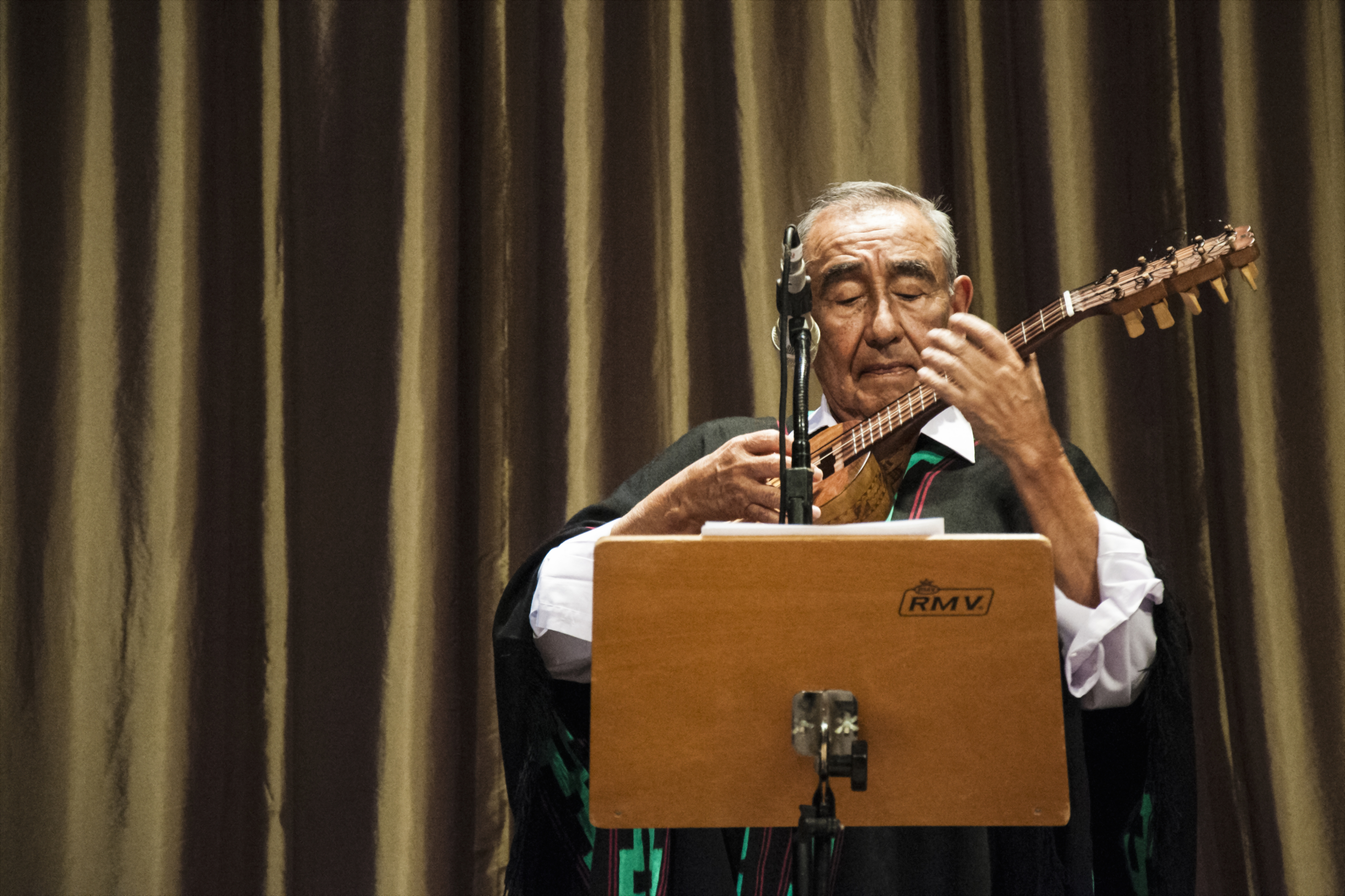 Argentine musician and composer Jaime Torres and his signature instrument, the charango, at the Argentina and Israel United in Music event. Photo: Cin Bianchi Dhuicque / Ministerio de Planificación Federal, Inversión Pública y Servicios.